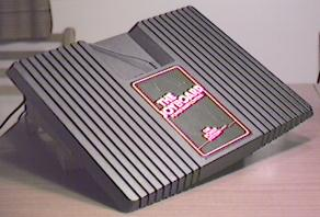 Amiga Joyboard - author agreed to license the photo under Creative Commons Attribution License 3.0. (Any more info needed ask me on my talk page.) ©1998 Doug Spence (Hrothgar)